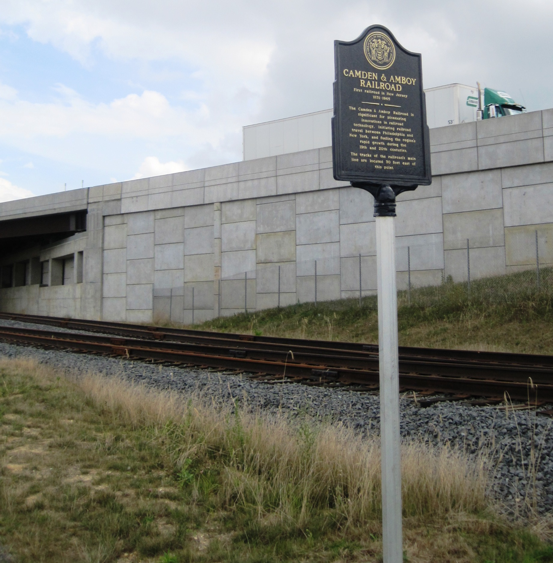 Photo of a historical marker recognizing the Camden and Amboy Rail Road and Transportation Company that formerly ran through New Jersey. Location of the marker is on Cranbury Station Road in Cranbury Township just south of the New Jersey Turnpike overpass. The railroad right-of-way is in the foreground behind the sign and the Turnpike is in the background.